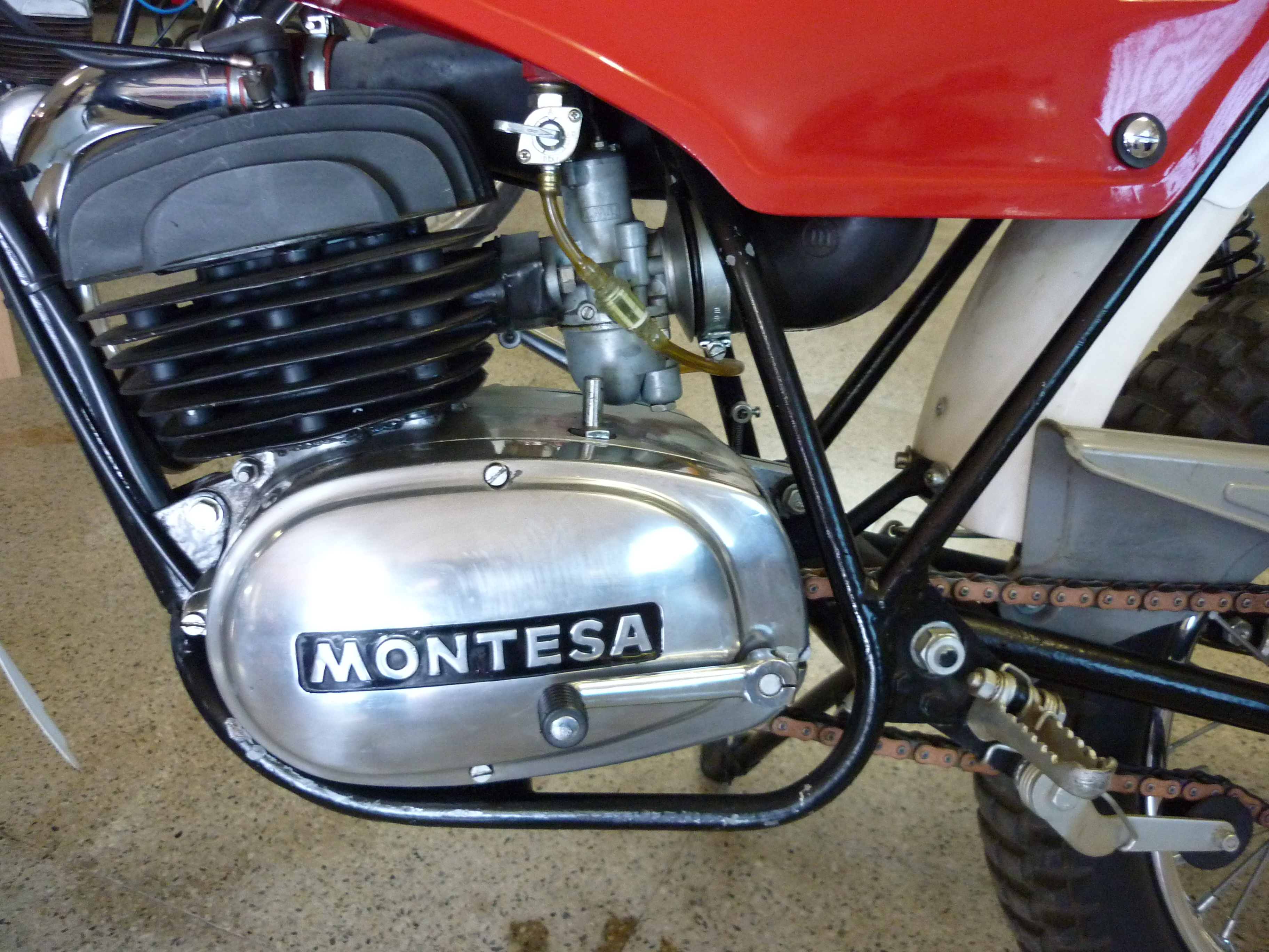 Montesa Cota 123 (engine view), 123.7 cc (1974).Isern Motorcycle Museum, Mollet del Vallès (Catalonia).